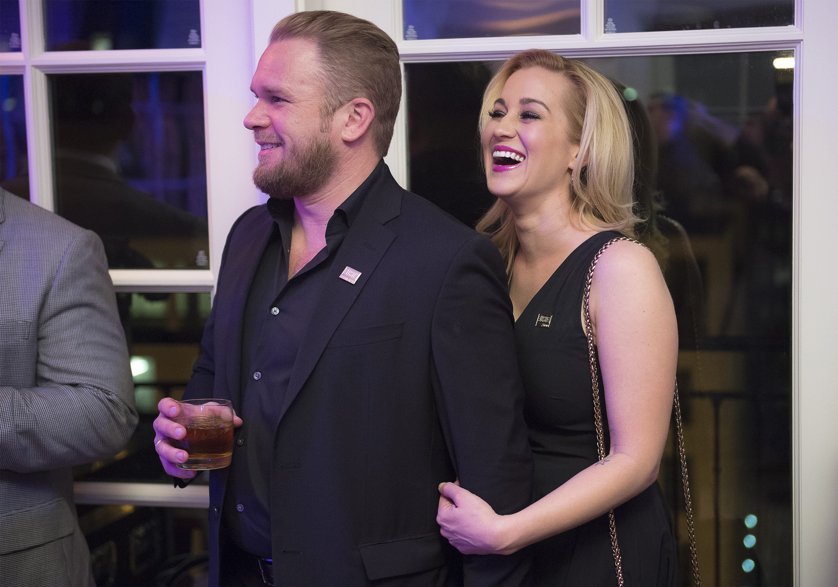 Country music singers Kyle Jacobs and Kellie Pickler listen to the band Interstate 10, headed by Active Duty U.S. Army Rangers Justin Wright and Andrew Yacovone perform during the USO 75th Anniversary Dinner in Washington D.C. Feb. 4th, 2016. (DoD Photo by Navy Petty Officer 2nd Class Dominique A. Pineiro)